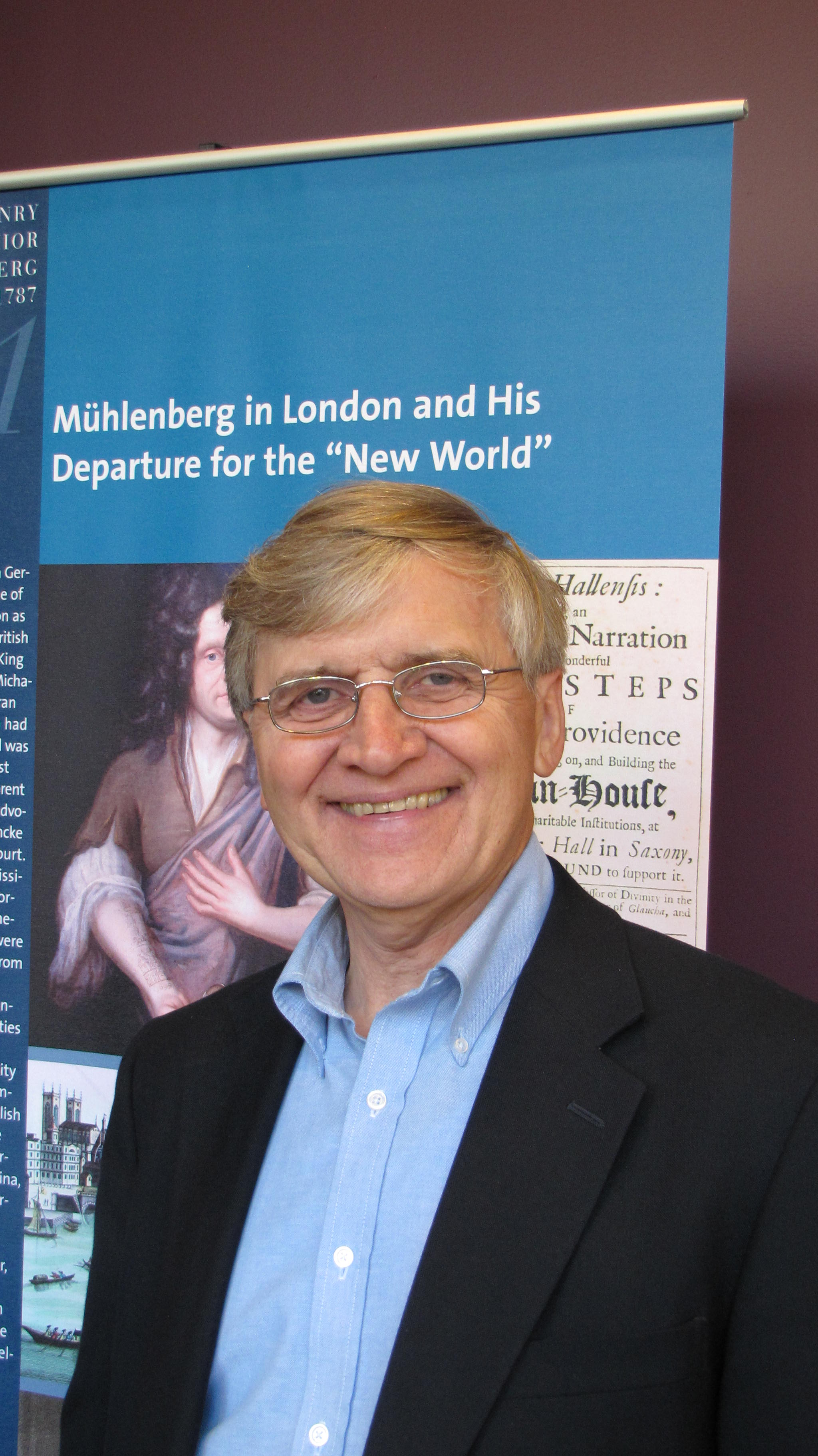 Rev Dr Philip D W Krey, president of the Lutheran Theological Seminary, Phildalphia, PA